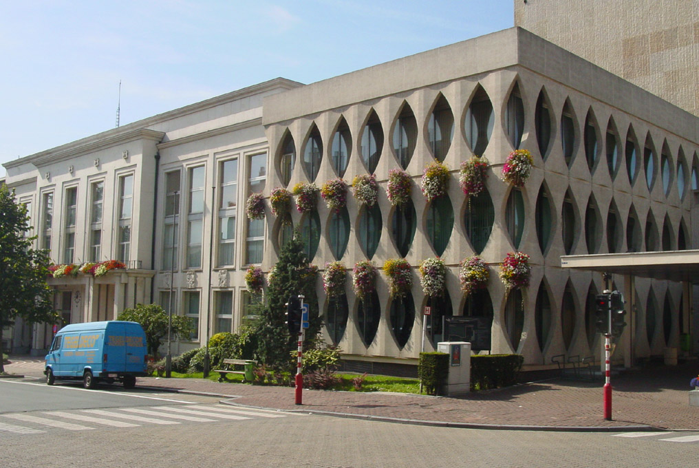 Photo of the Etterbeek Maison Communale (town hall) taken by David Edgar on 2005-08-28.